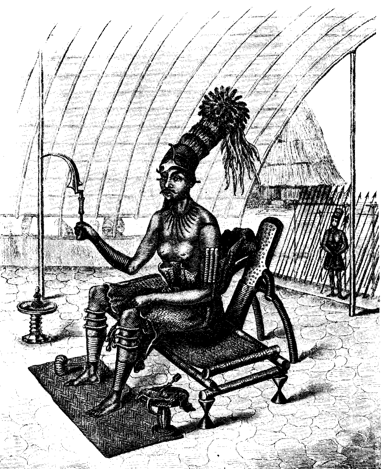 King Munsa of Mangbetu in his court